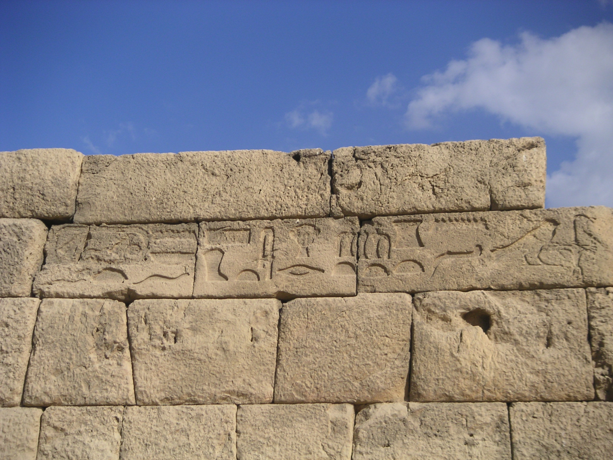 Detail of an inscription from the mastaba of Khufukhaf, priest under rule of Khufu (Cheops) - Gizeh - november 2004